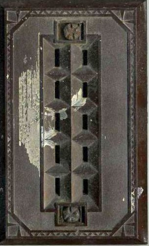 Five-space electrical receptacle, image rotated and adjusted to better format the article